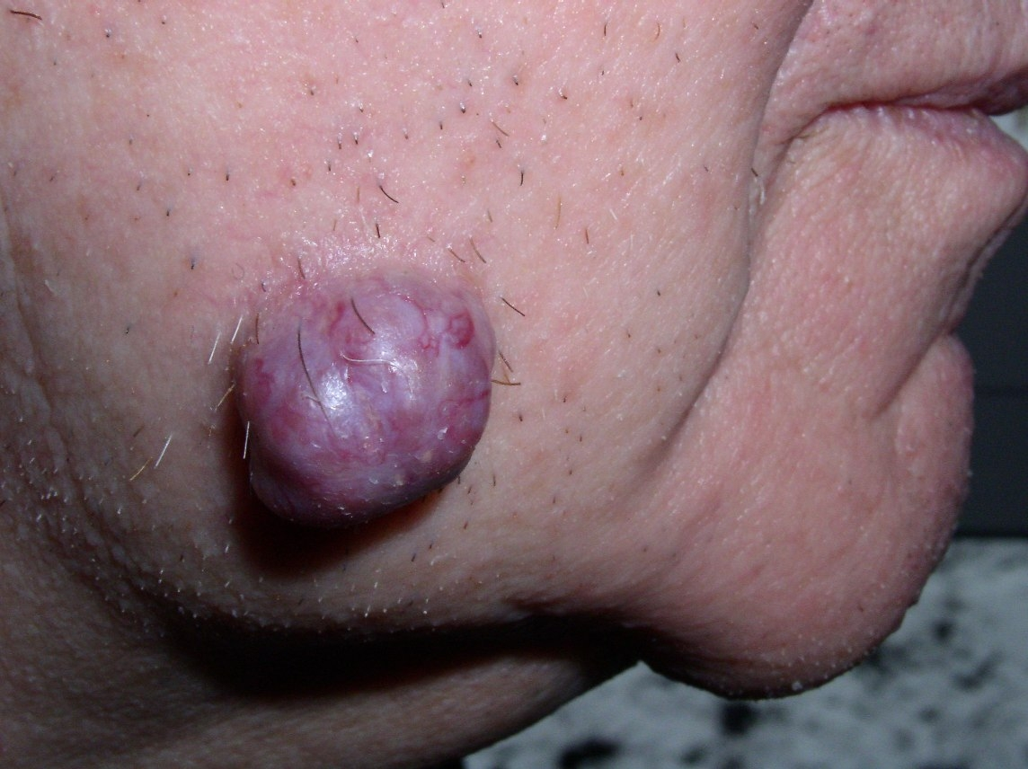 Rare and benign cutaneous neoplasma of sweat glands (Hidradenoma) in 77-year-old man